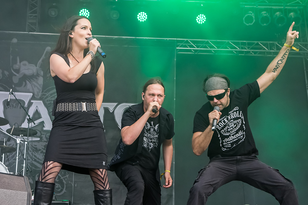 Van Canto - Rock Harz 2013 - 13-07-2013